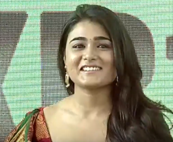 Shalini Pandey at Kalyan ram unnamed movie opening.png